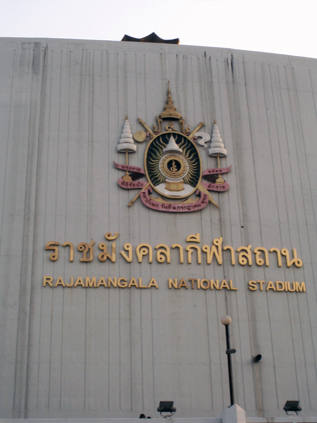 Rajamangala Stadium, Bangkok (note: the symbol of this stadium came from the Royal Ceremonial Emblem on the Grand Celebrations of the Reign, Marking the longest Reign in Thai History of King Rama IX in 1988.)